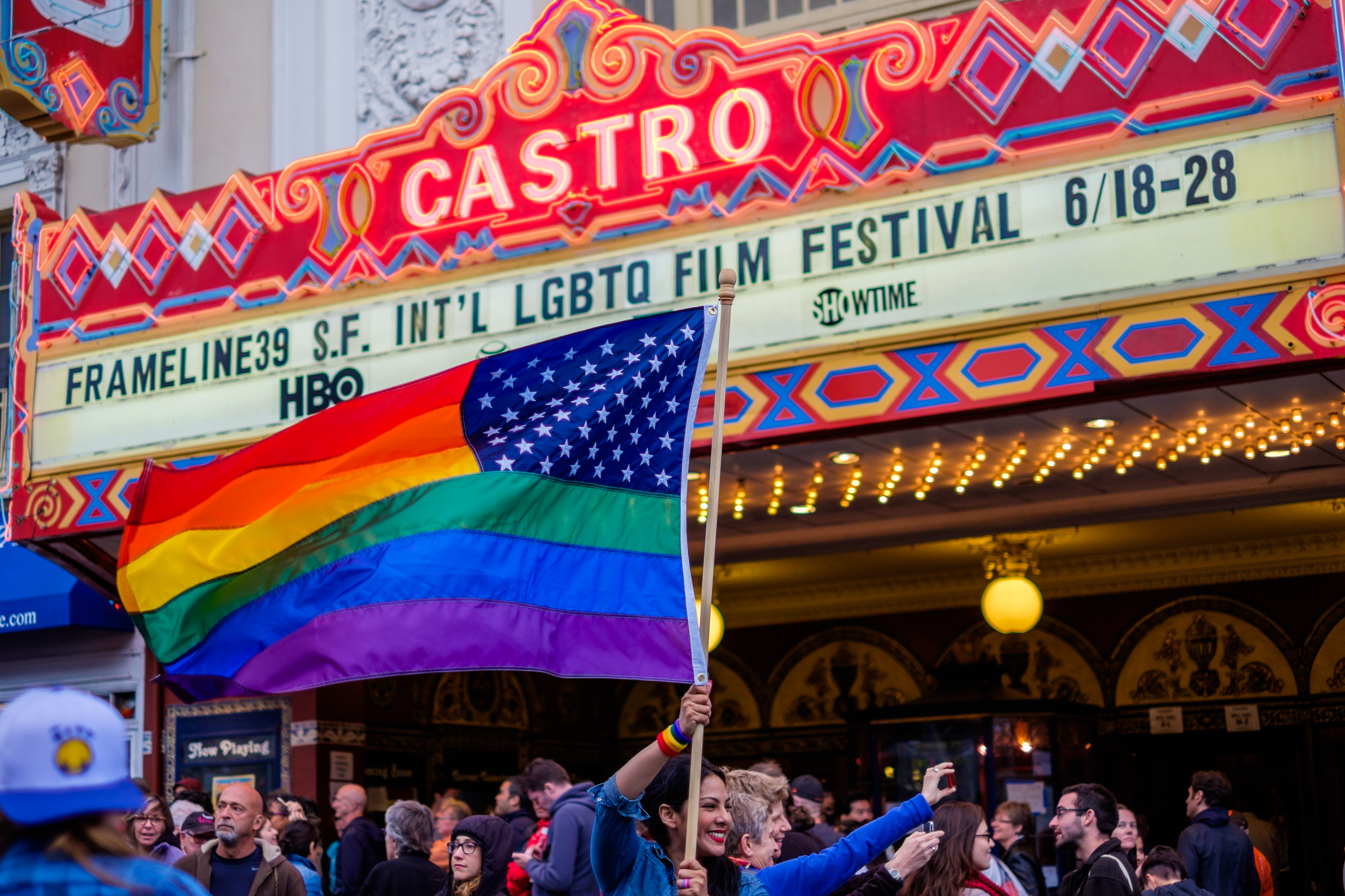 As see in the Castro, San Francisco, June 26 2015.